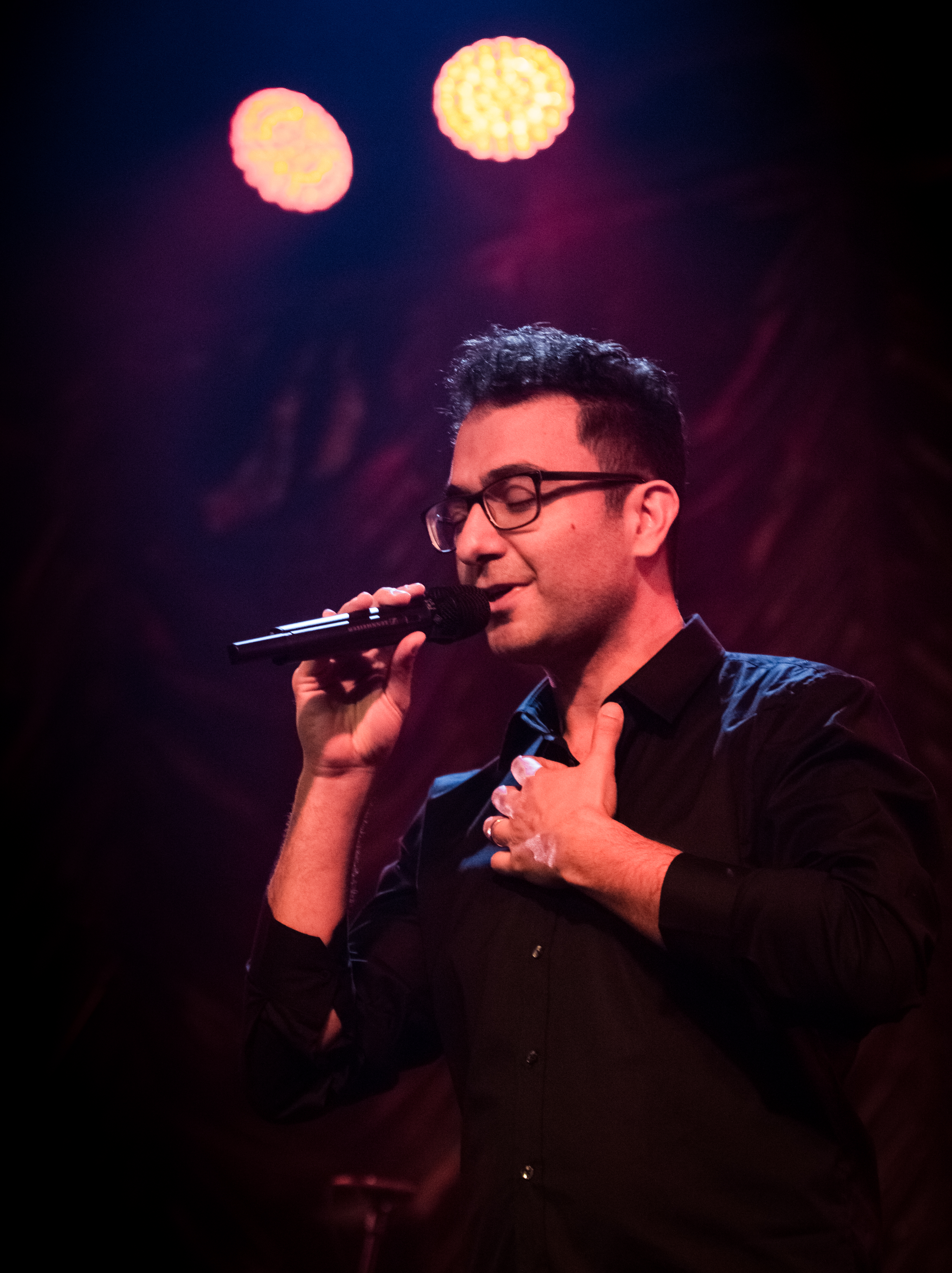 Arthur Horváth - Rabih Lahoud(Singer) - Leverkusener Jazztage 2016